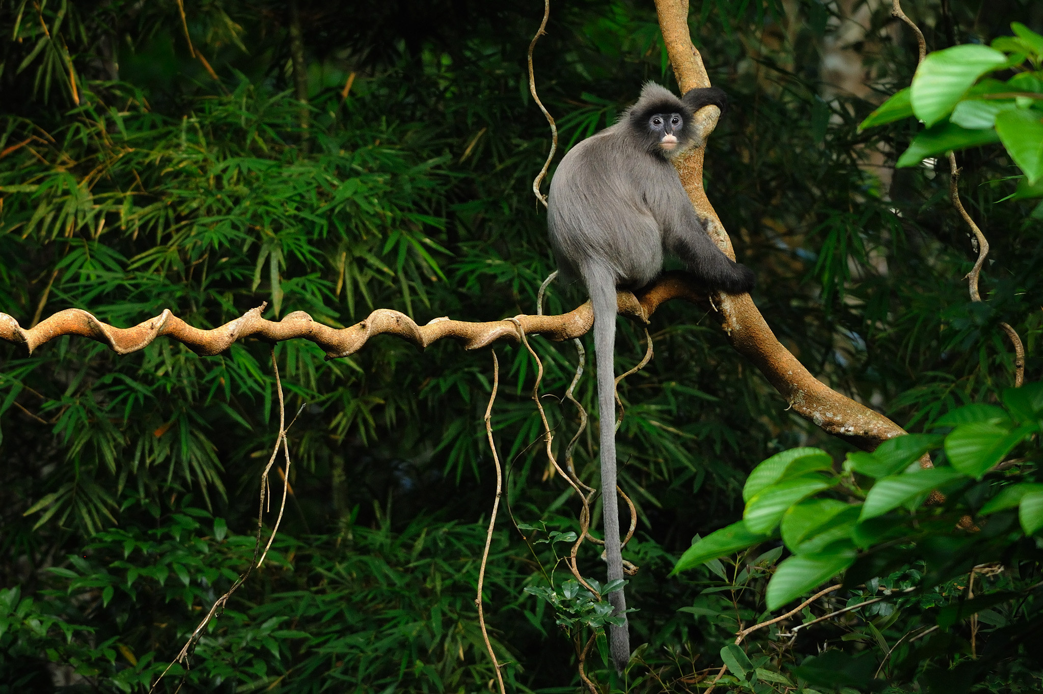 Phayre's Langur also known as Phayre's Leaf Monkey, Trachypithecus phayrei in Phu Khieo Wildlife Sanctuary, Thailand